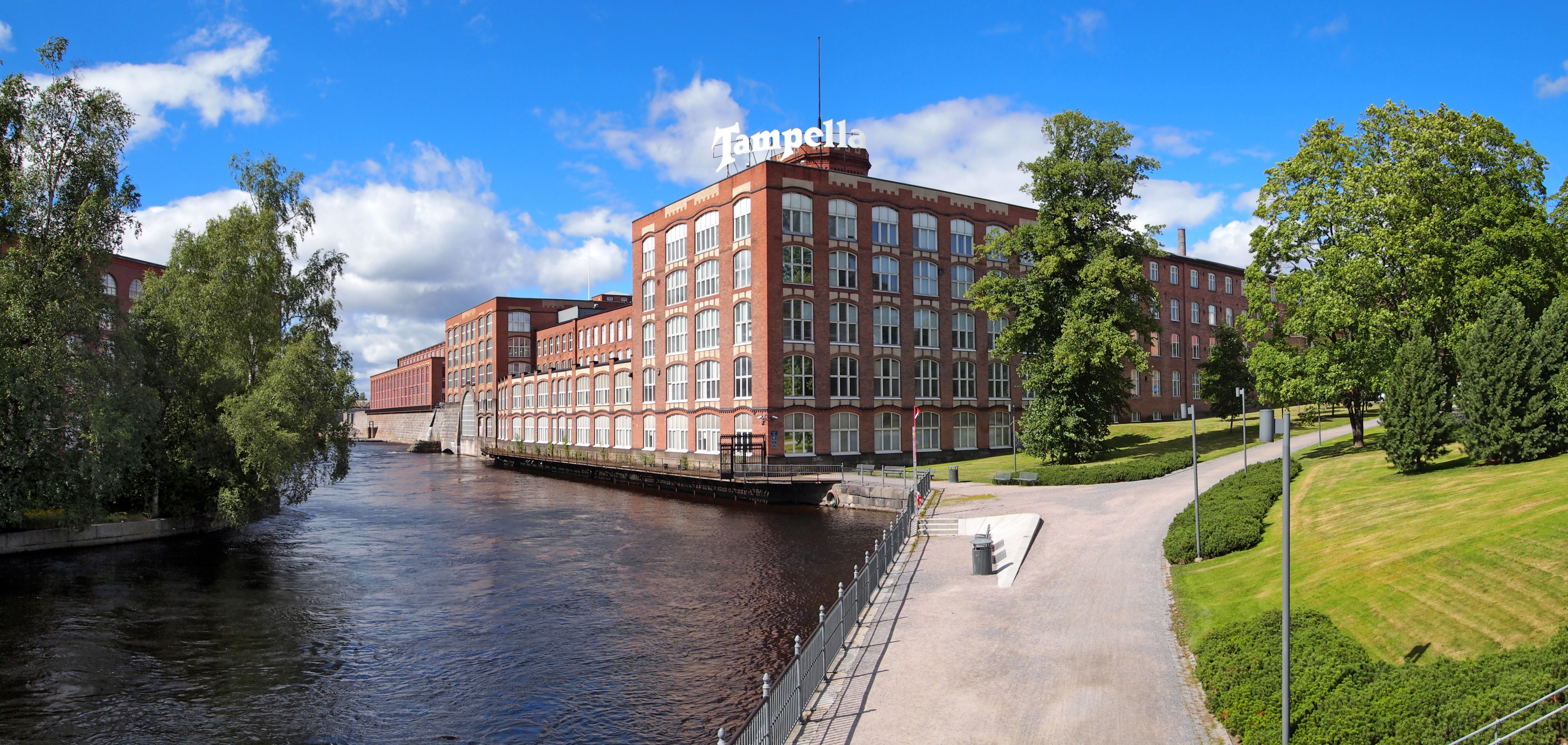 Building Tampella in Tampere. This photograph was taken with an Olympus E-PL1